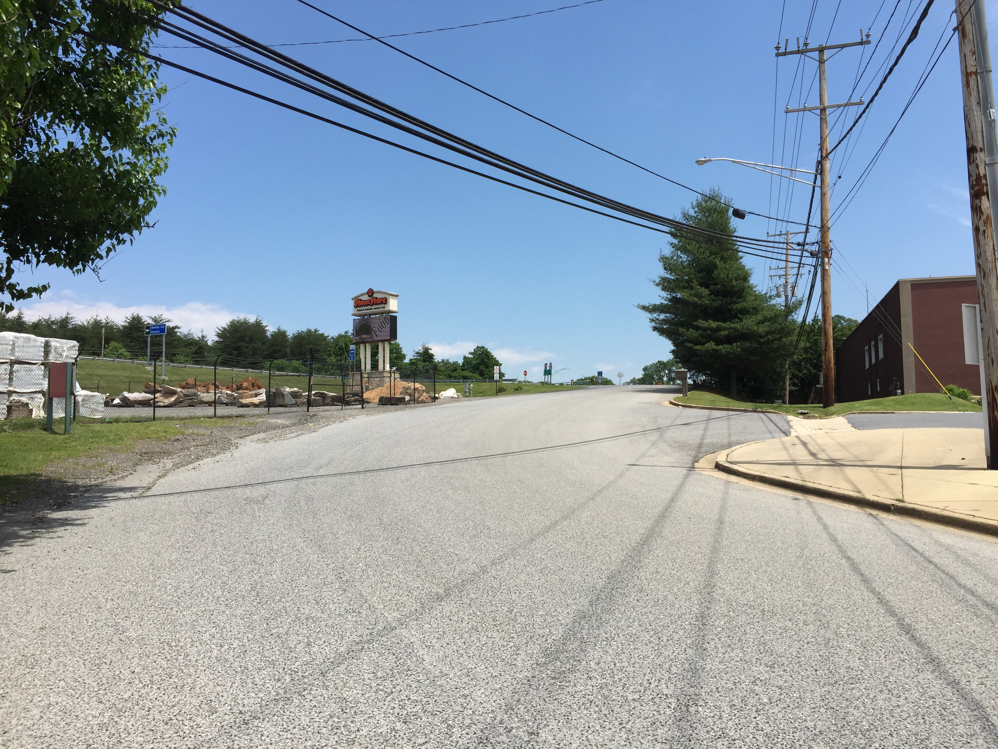 View east along Maryland State Route 645 (Old Dorsey Road) at Railroad Avenue in Severn, Anne Arundel County, Maryland